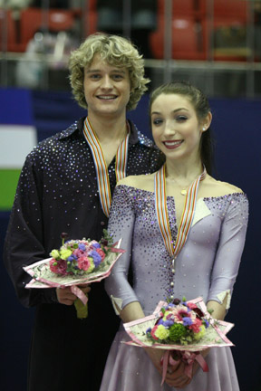 Meryl Davis & Charlie White during the ice dancing medals ceremony at the 2008 Four Continents Figure Skating Championships. They won the silver medal at this competition.